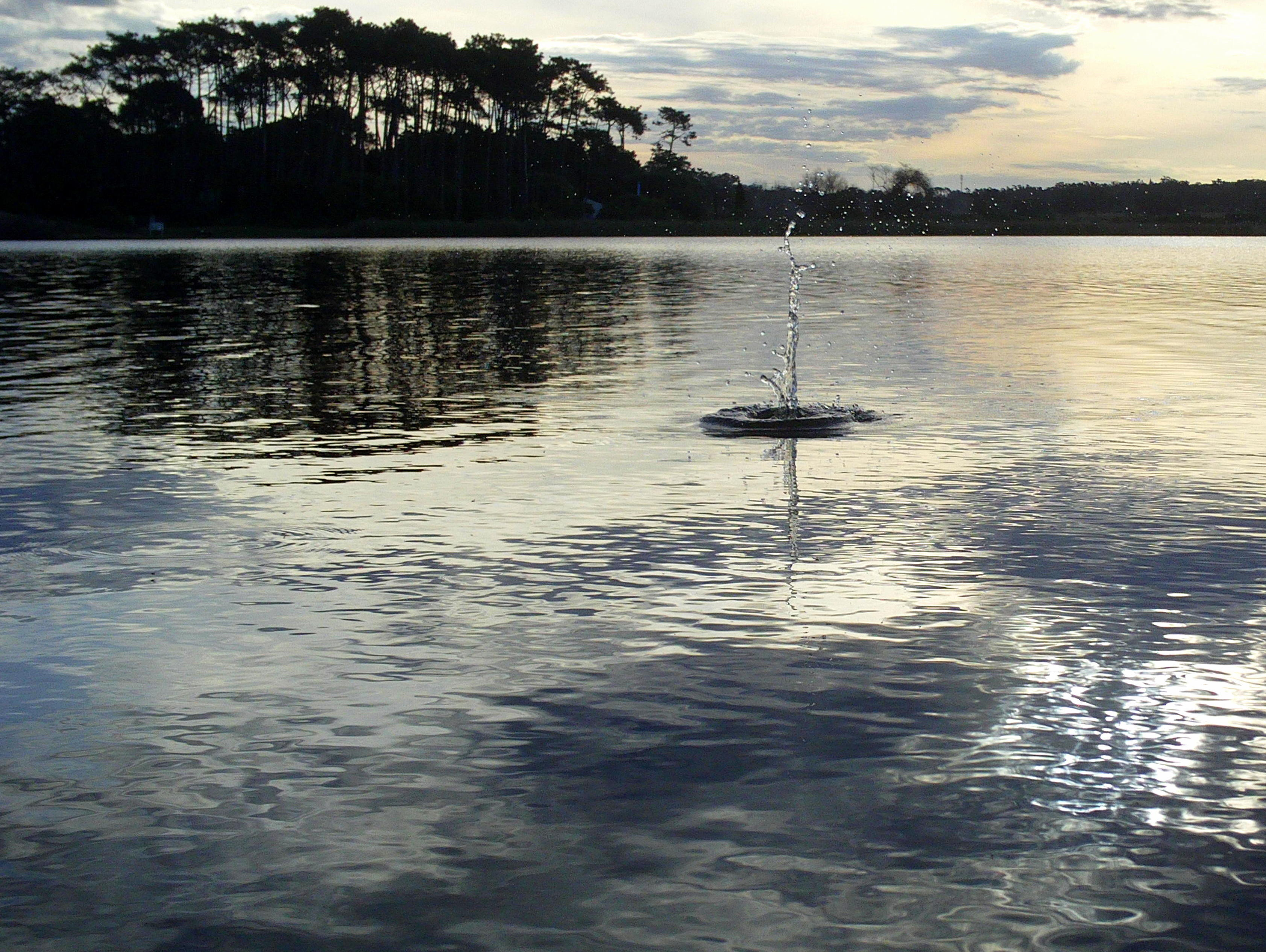 A rock thrown into the waters of Diario Lacoon in Maldonado, Uruguay.